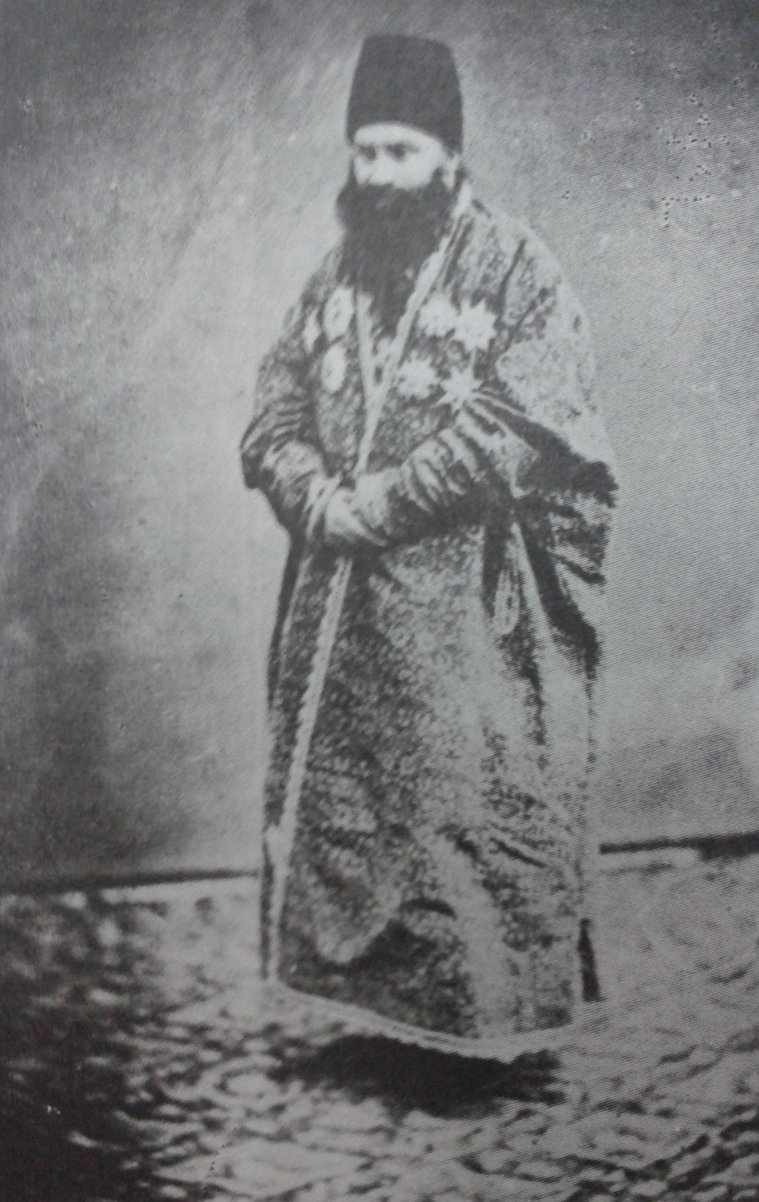 Mohammad Sadiq-ol-molk Persian (Iranian) politician